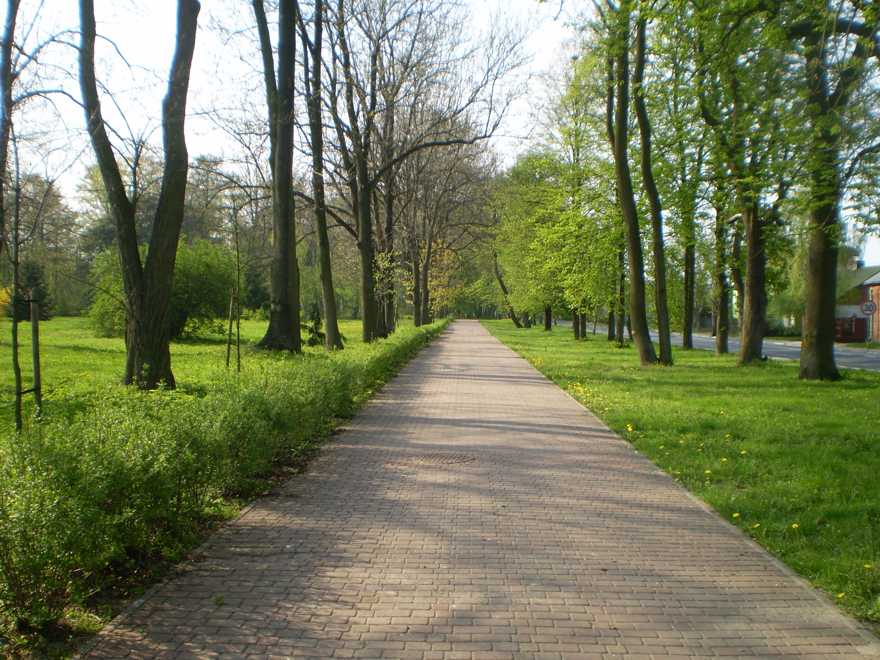 Zadzim